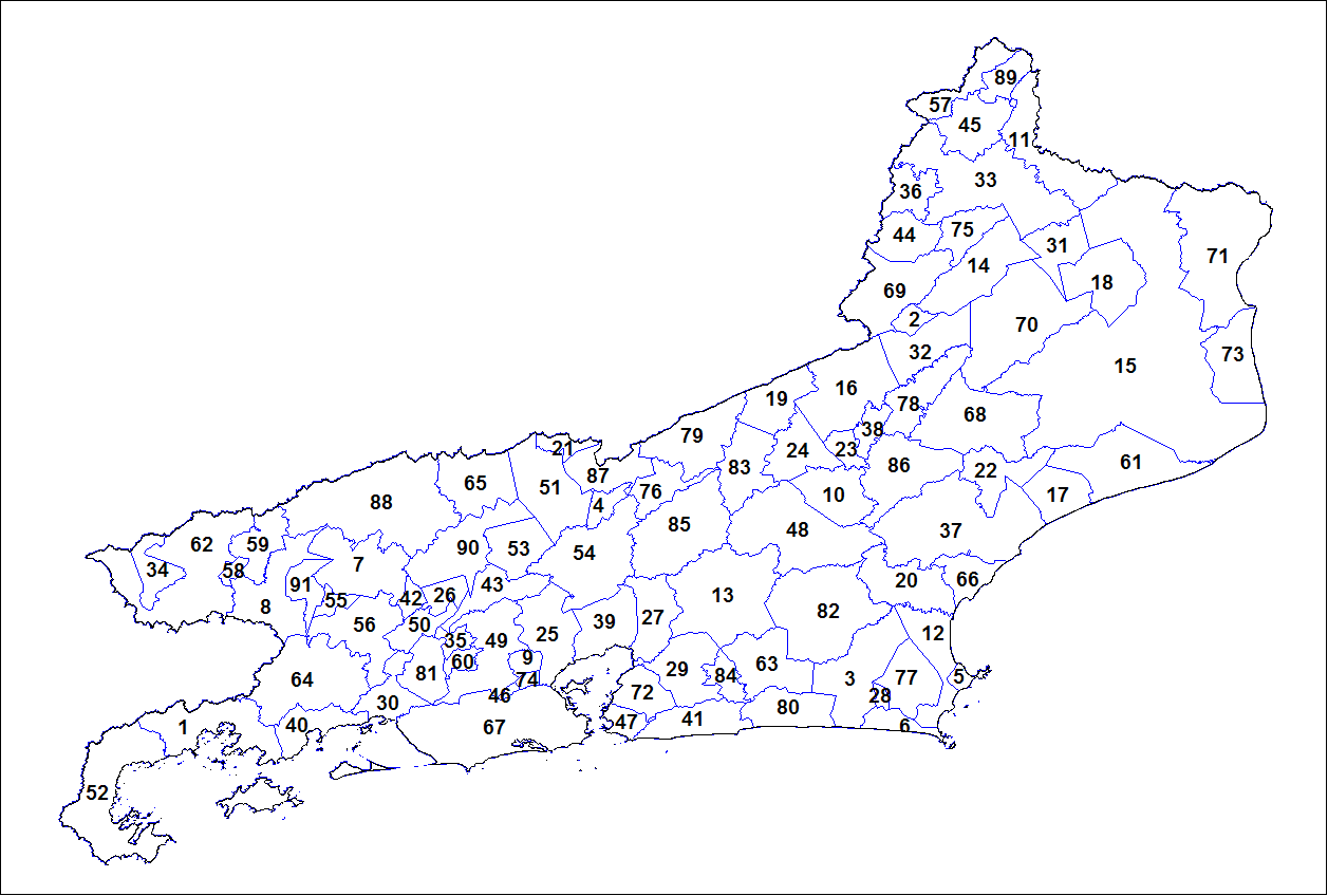 Map of the municipalities of the state of Rio de Janeiro, Brazil. Created by Rarelibra 22:24, 24 August 2006 (UTC) for public domain use. Created using MapInfo Professional v8.5 and various mapping resources.